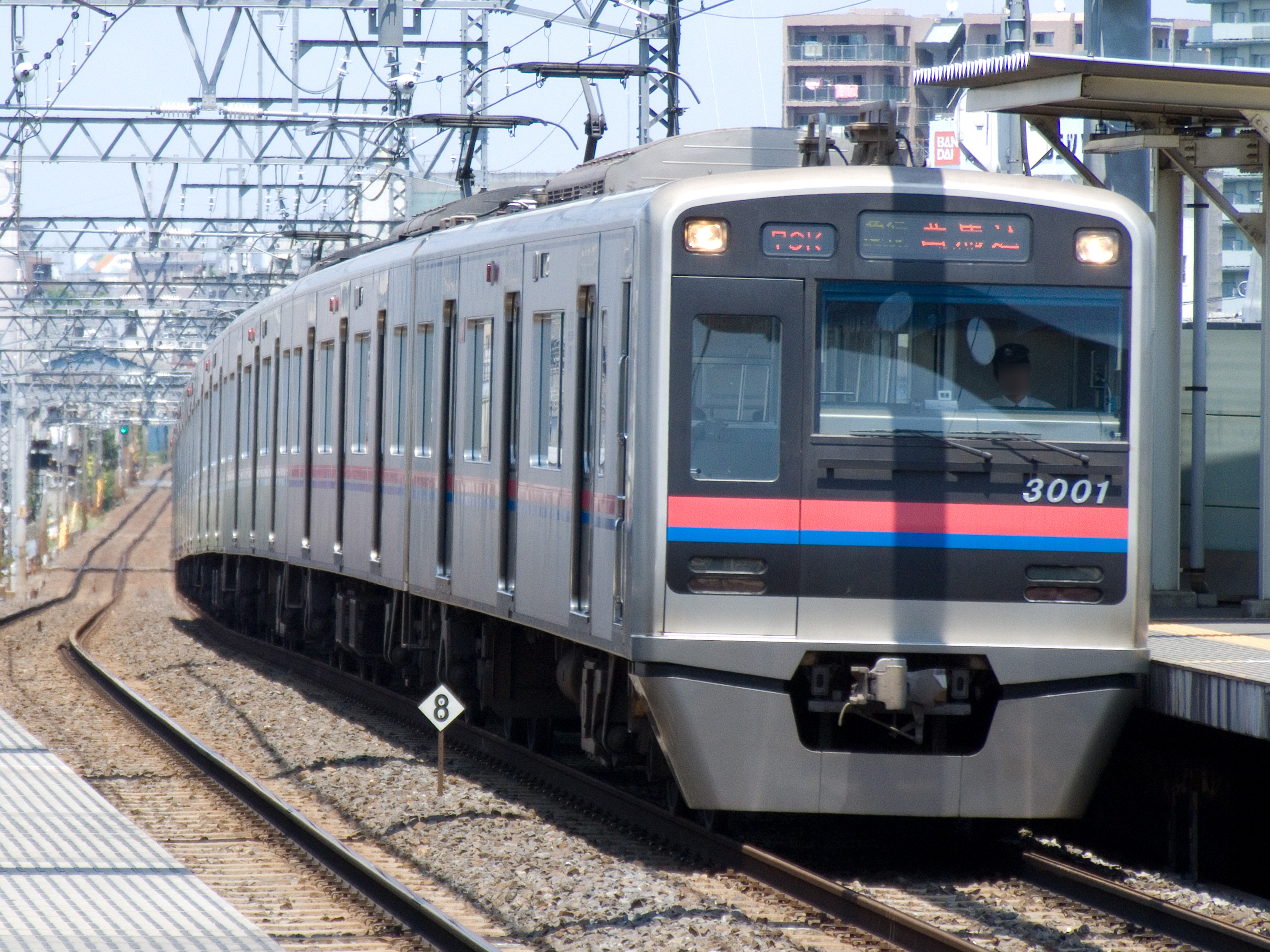 Keisei Electric Railway series 3000 (2nd series) 1st unit